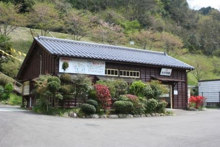 Daigyoji Station on Hitahikosan Line